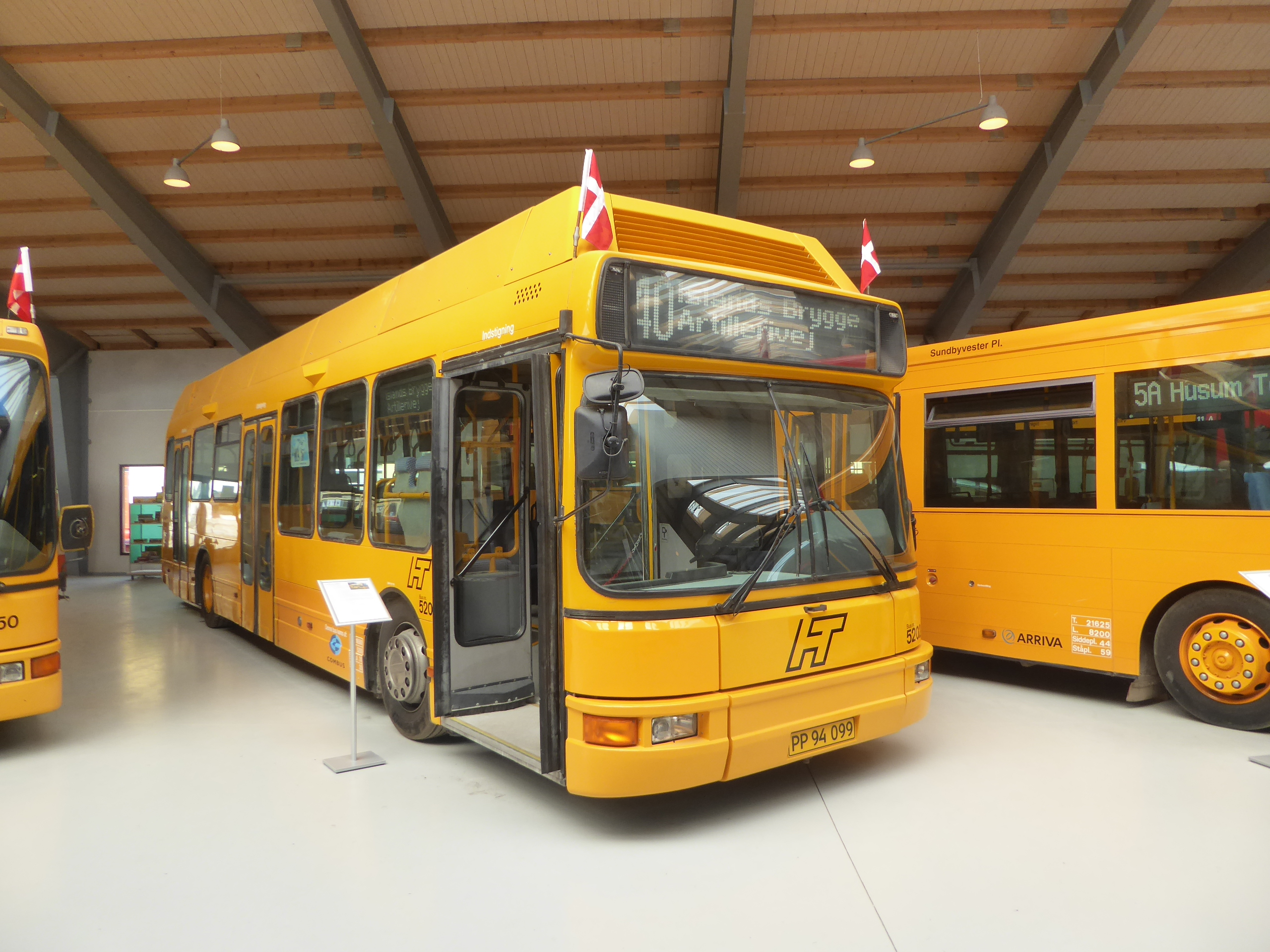 Old bus from Copenhagen, Combus 5202 build in 1998, in the new bus exhibition hall at Sporvejsmuseet Skjoldenæsholm in Denmark.